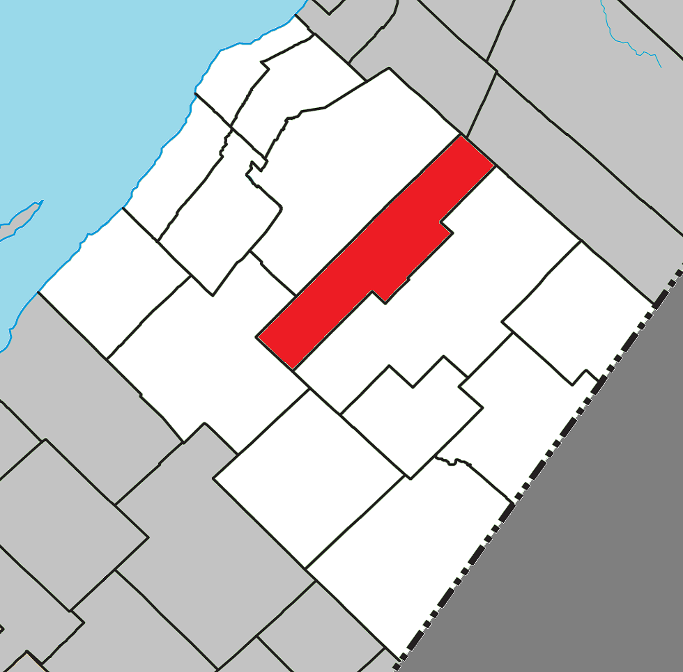 Location of Tourville, Quebec within L'Islet Regional County Municipality.